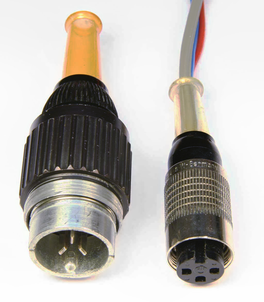 Tuchel Microphone connectors: big Tuchel plug (left), small Tuchel socket (right)